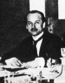 A photograph of Gustav Klinger in Moscow around 2 to the 6th of March in 1919.